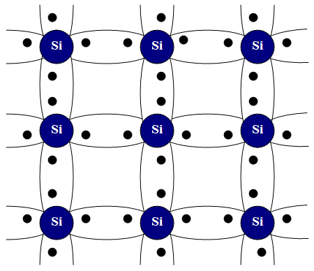 Black spheres are electron and blue ones are nucleus of the atom.